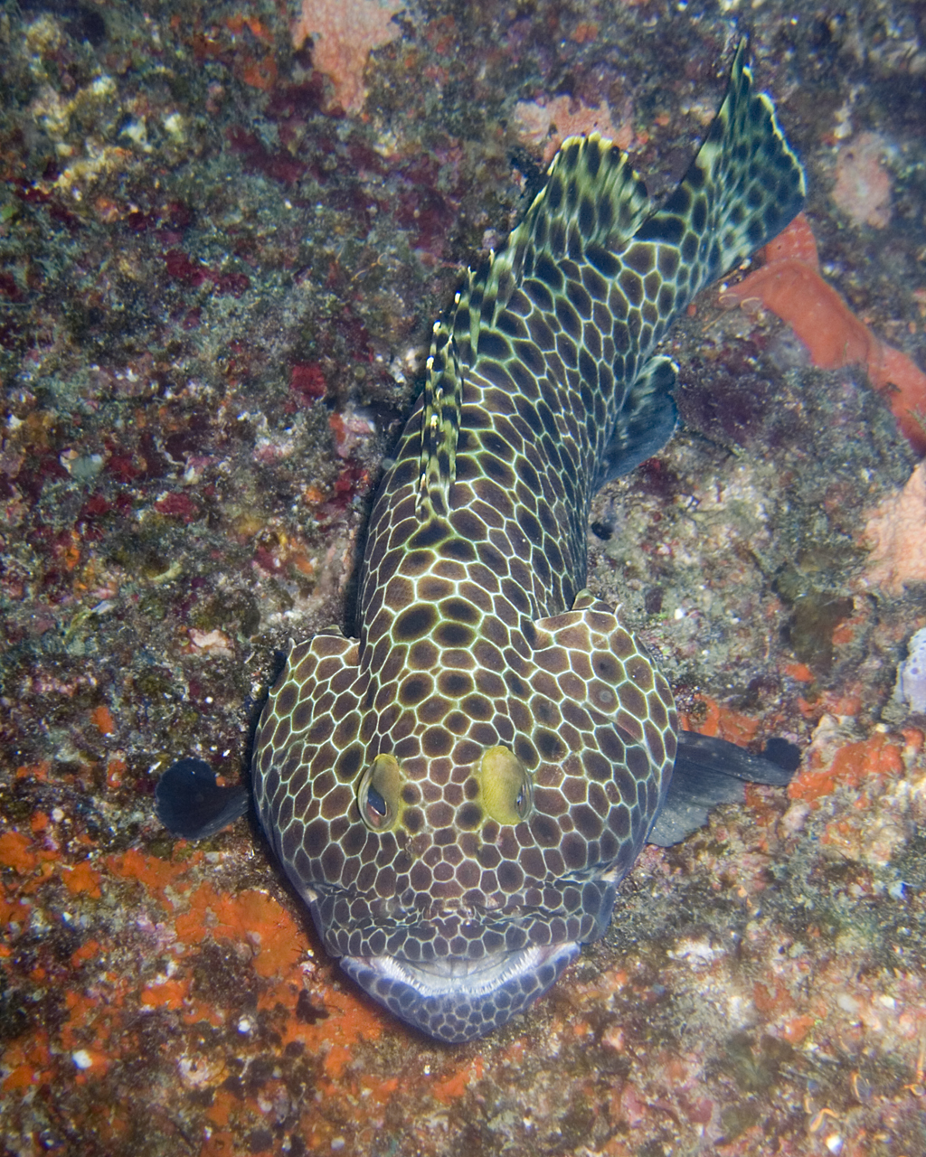 Honeycomb grouper (Epinephelus merra)